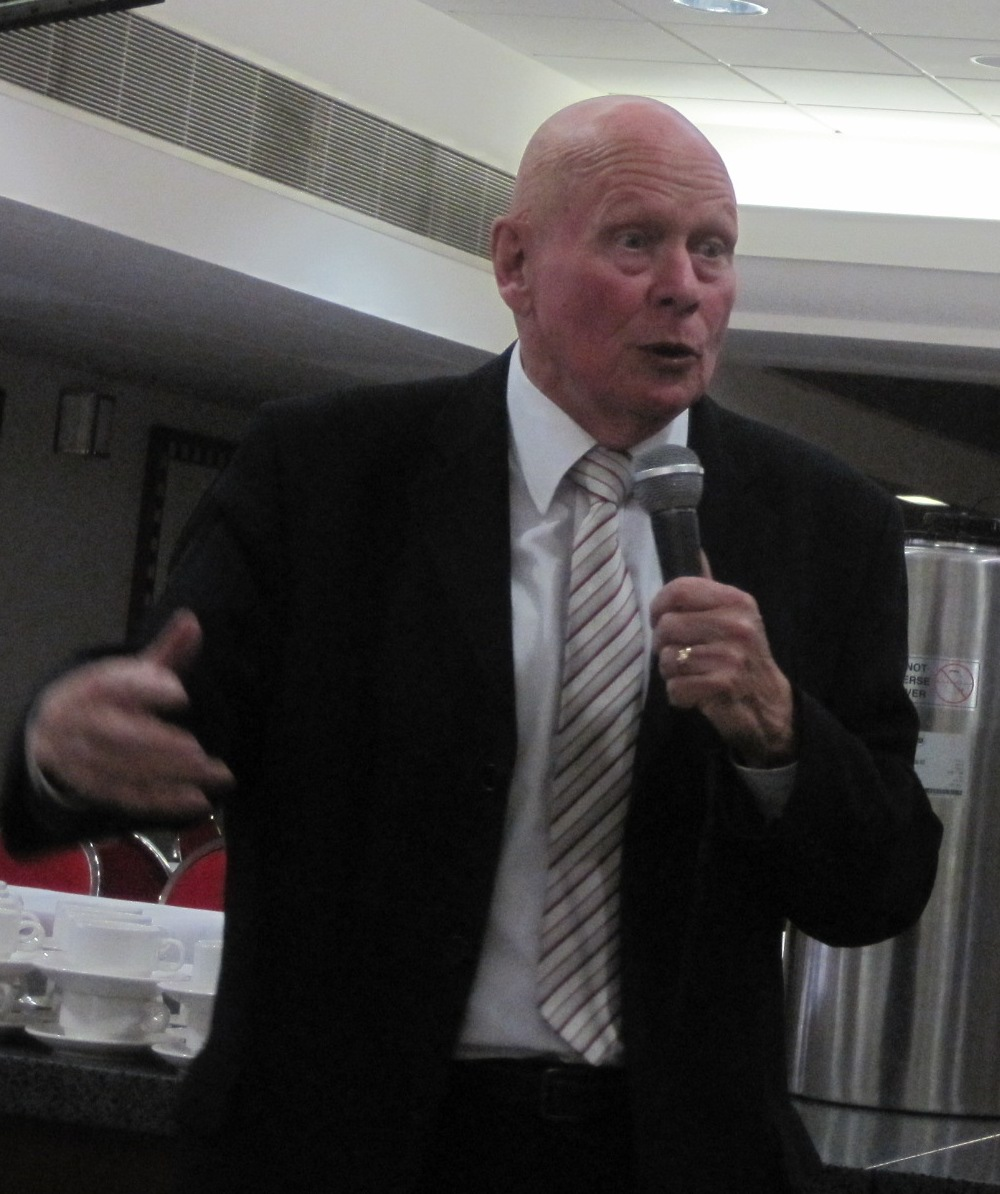 crop of Wilf McGuinness from Old Trafford tour